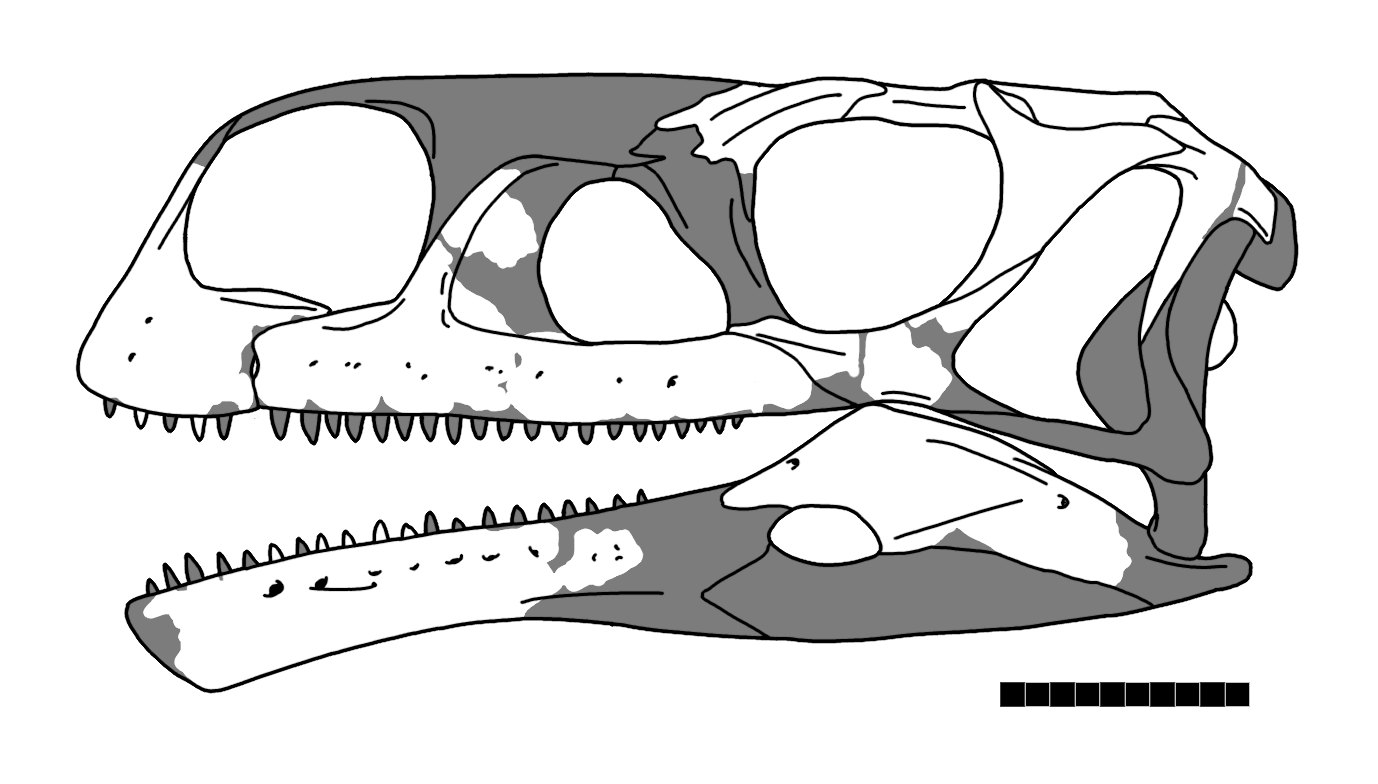 Skull diagram showing the known material of Aardonyx. Based on photographs and measurements in original description and supplementary material. Scale bar = 10 cm